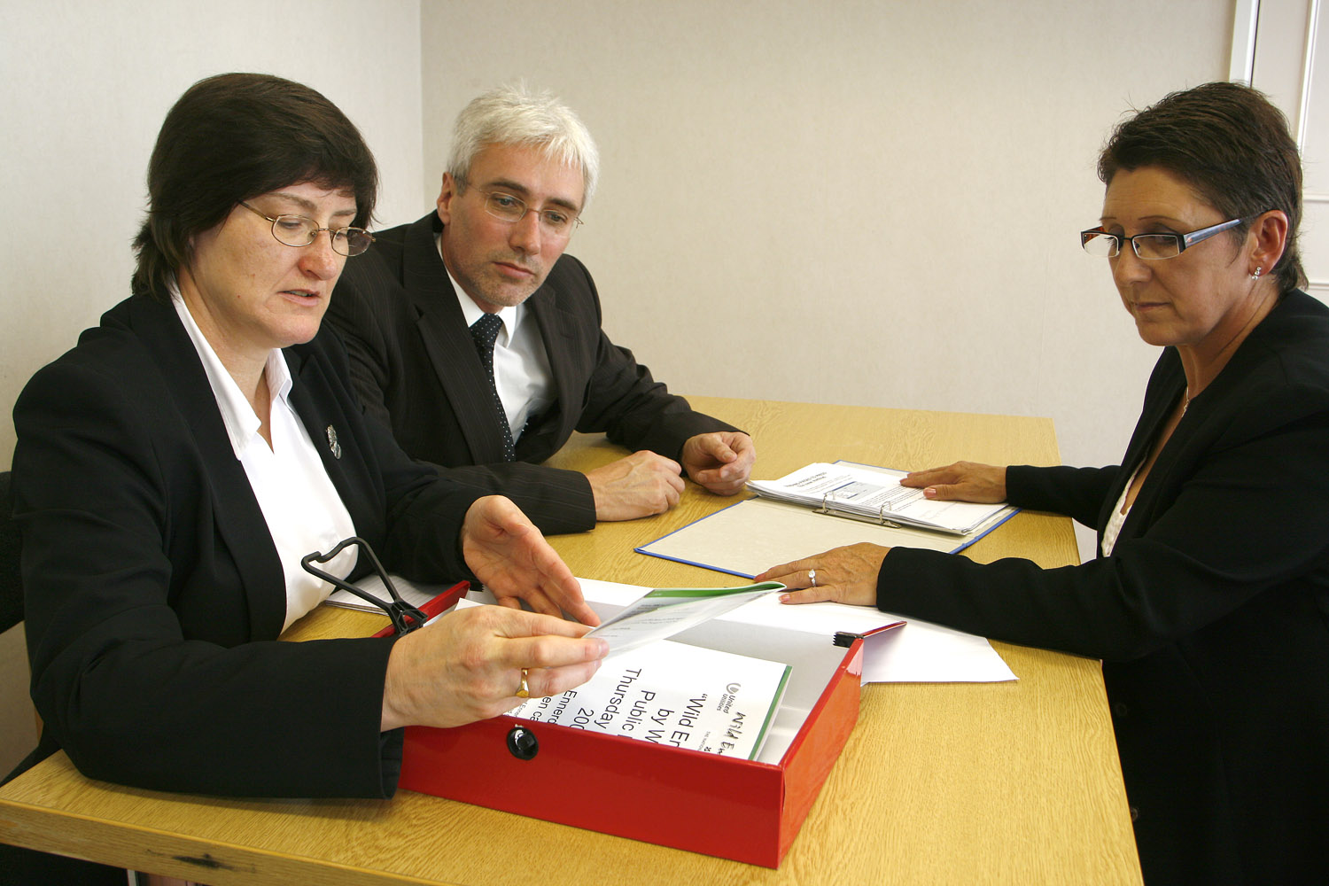 Free to use - just credit Alan Cleaver. See other free stock pictures in my Freestock set